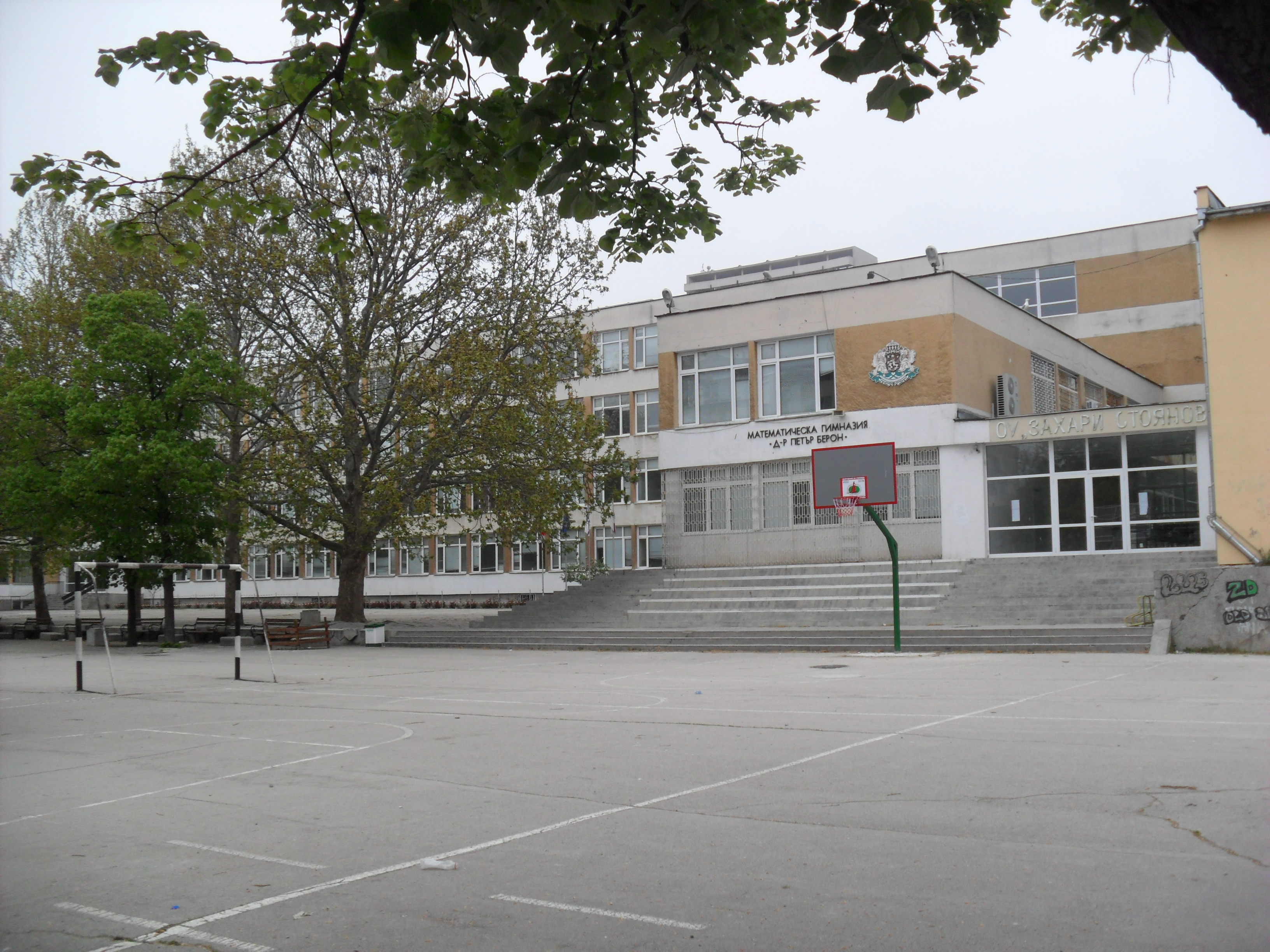 May 2015